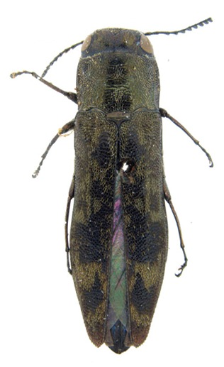 Agrilus horni Théry 1904, lectotype.